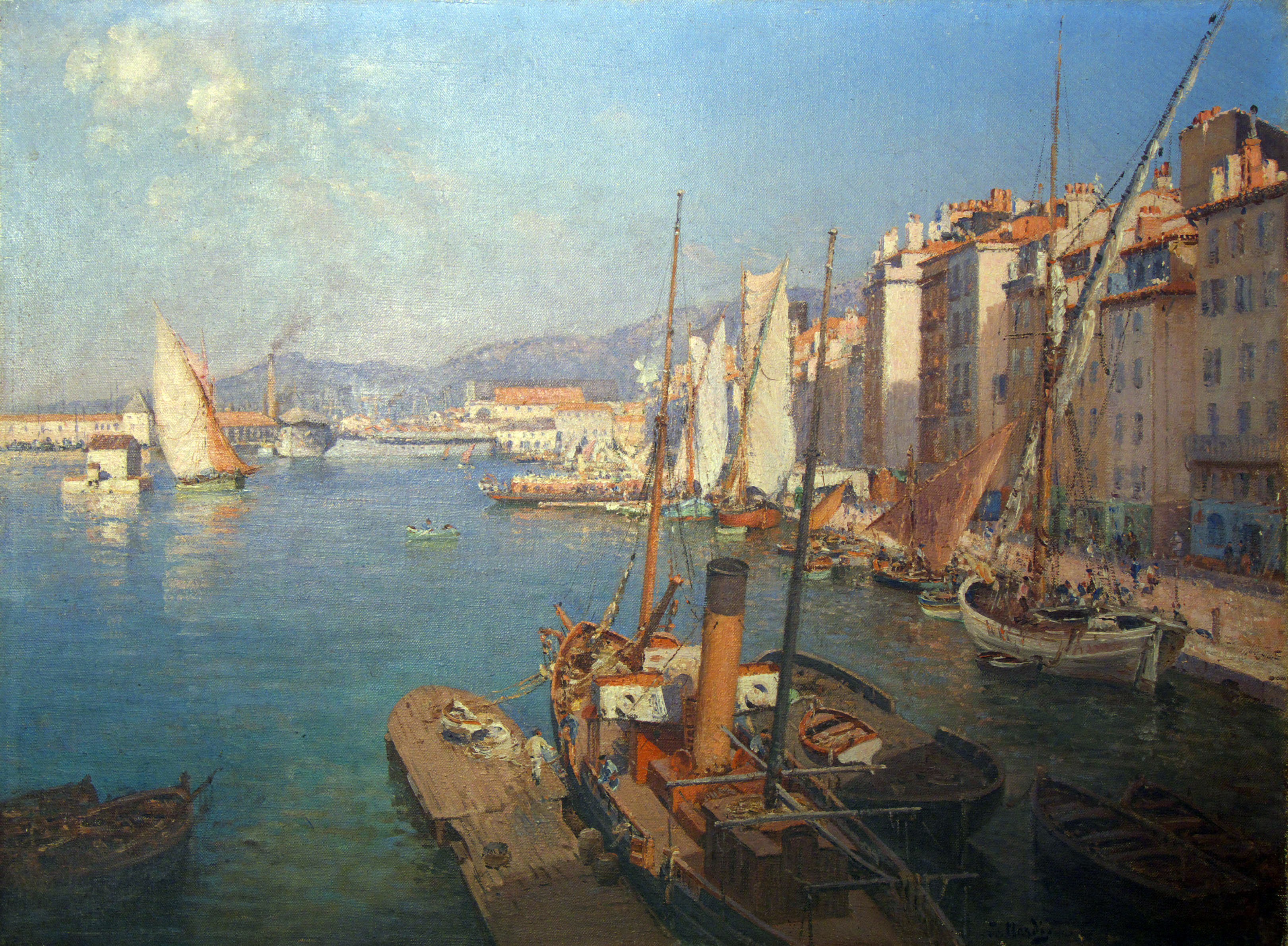 The harbor of Toulon, in the morning, with the mail of gold islands to the pier (Stamp of the Red Cross)